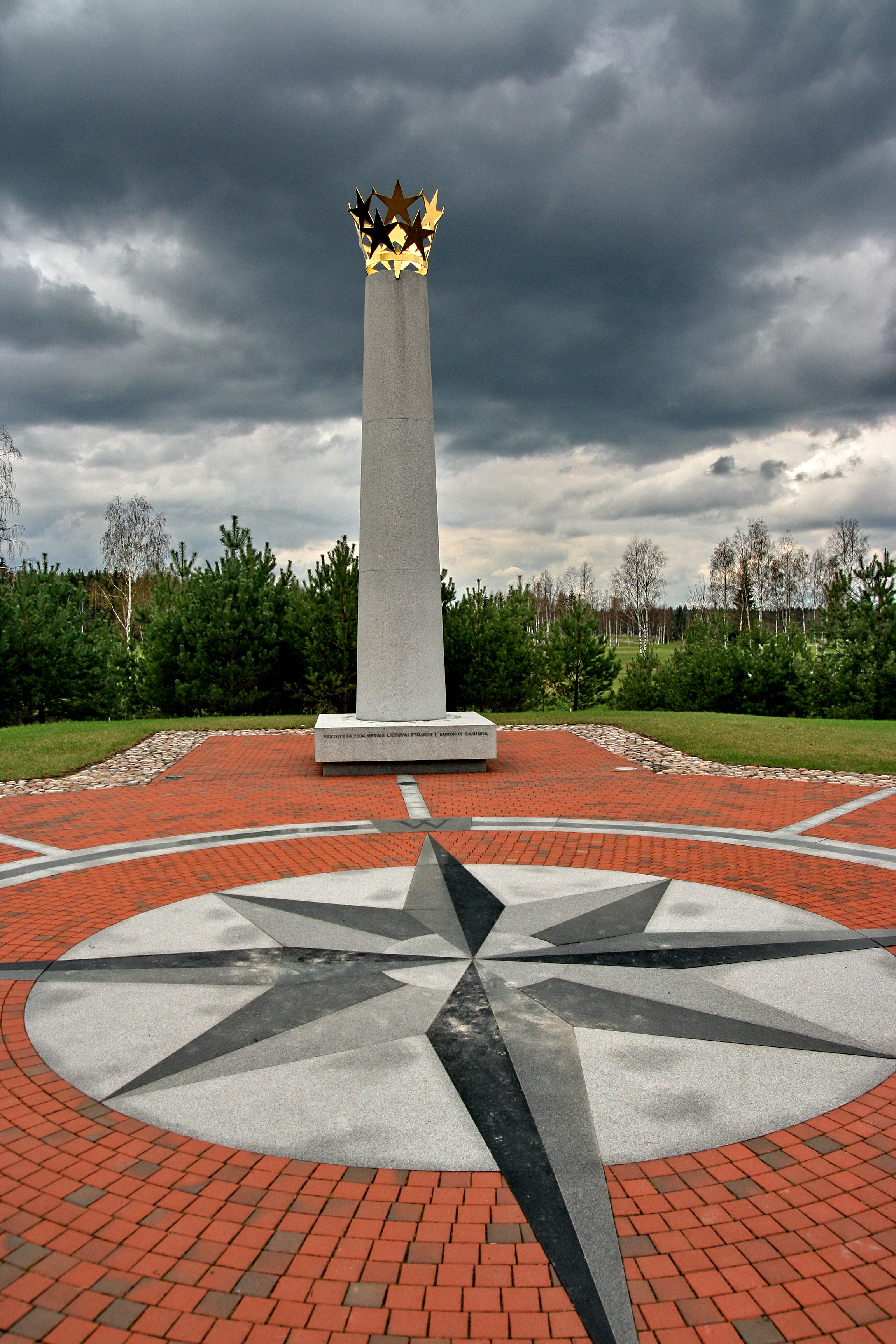 Centre of Europe, Lithuania